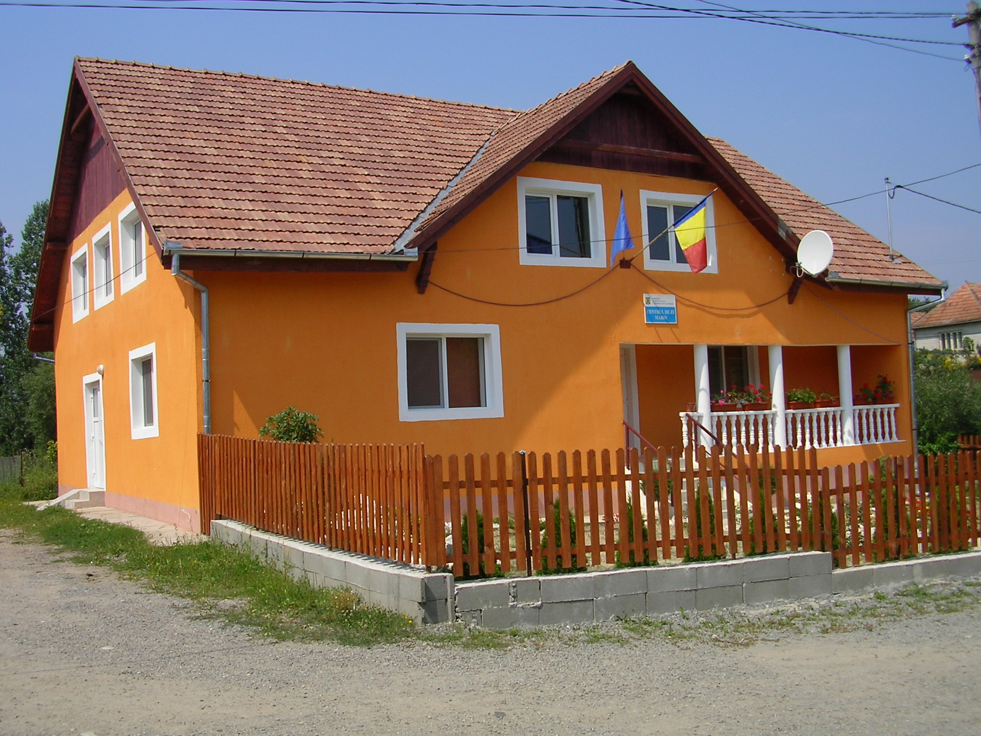 General Directorate for Social Assistance and Child Protection building?